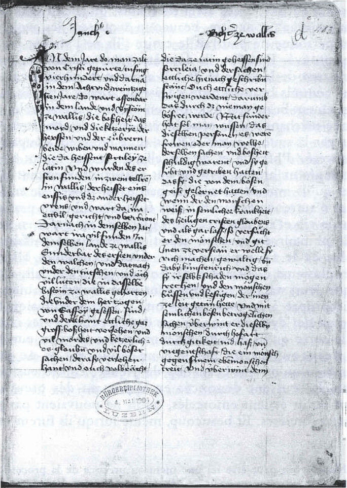 Manuscript by Hans Fründ concerning witch-hunts in the Canton of Valais, Switzerland. First page, Zentralbibliothek/Bürgerbibliothek Luzern (Lucerne).